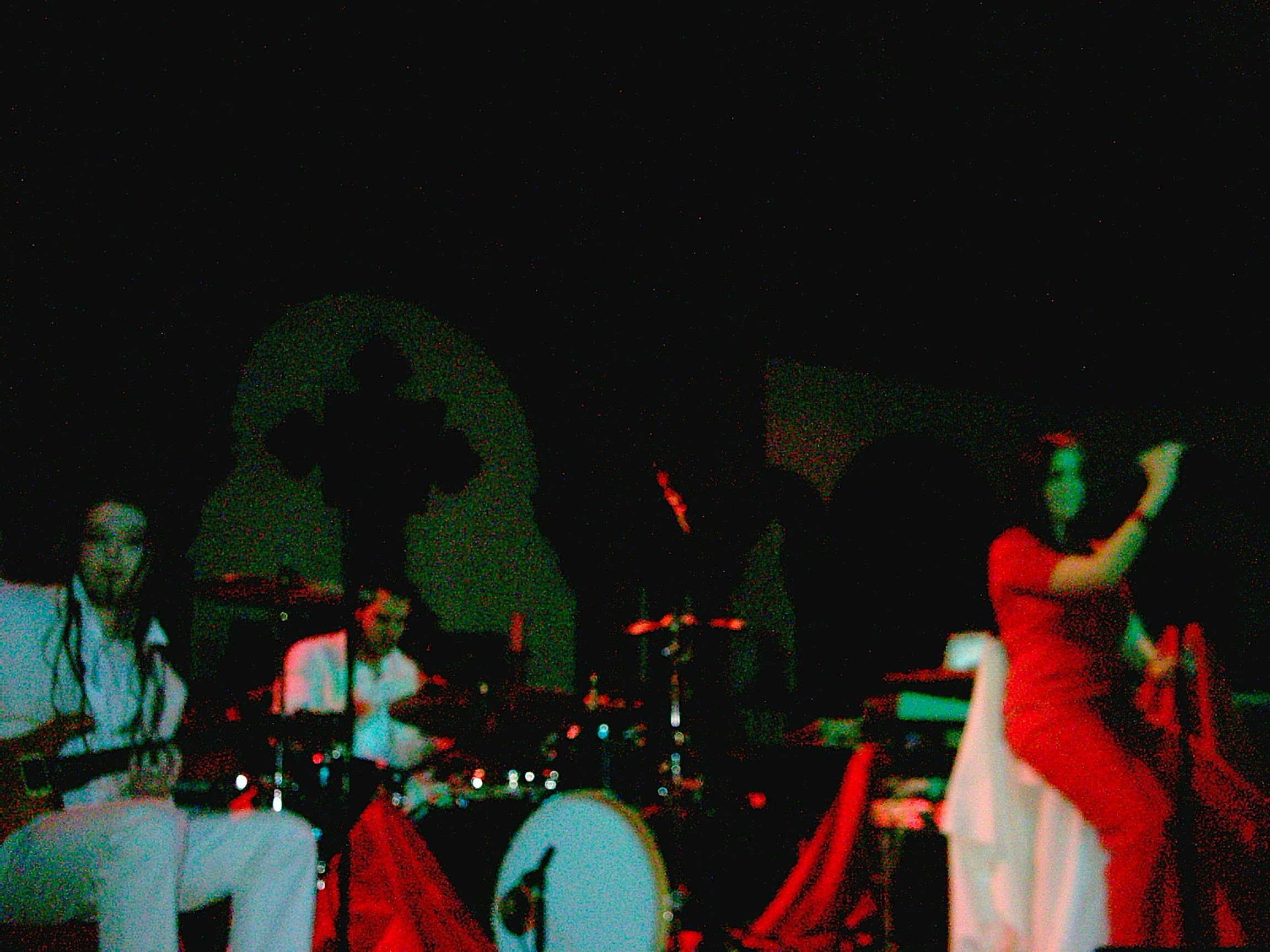 The Gathering, Flowing Tears concert during Sleepy Buildings Tour (Passionskirche in Berlin, 2004-03-10)